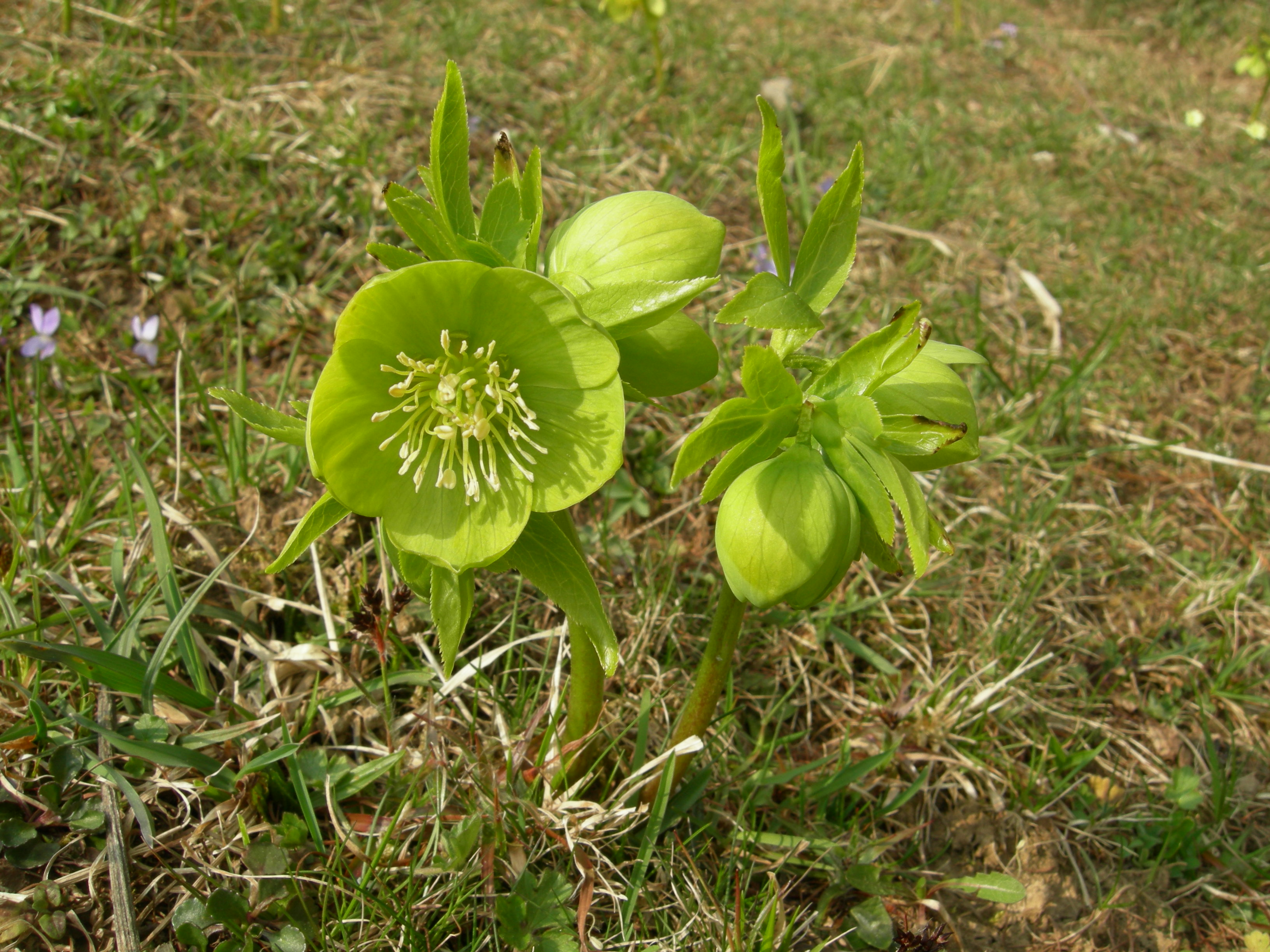 Helleborus odorus (at Begunje na Gorenjskem, Slovenia)